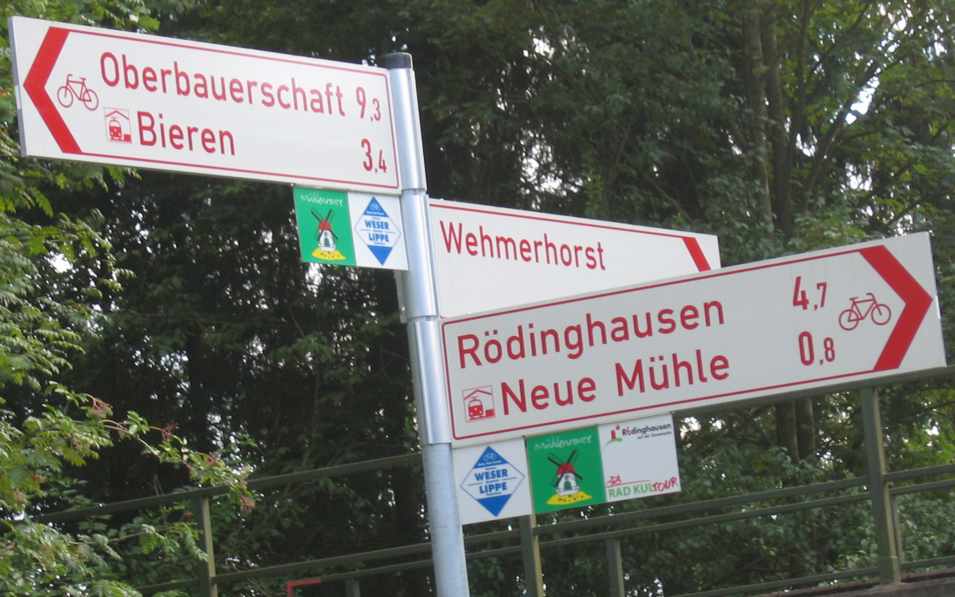 Cycling sign in the town of Rödinghausen-Bieren, Germany.